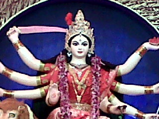 a replica of durga devi near nagpur .